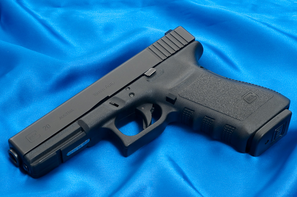 A "third generation" Glock 20 (full-size pistol chambered for 10mm Auto), identified by the addition of thumb rests, an accessory rail, finger grooves on the front strap of the pistol grip, and two cross pins above the trigger.